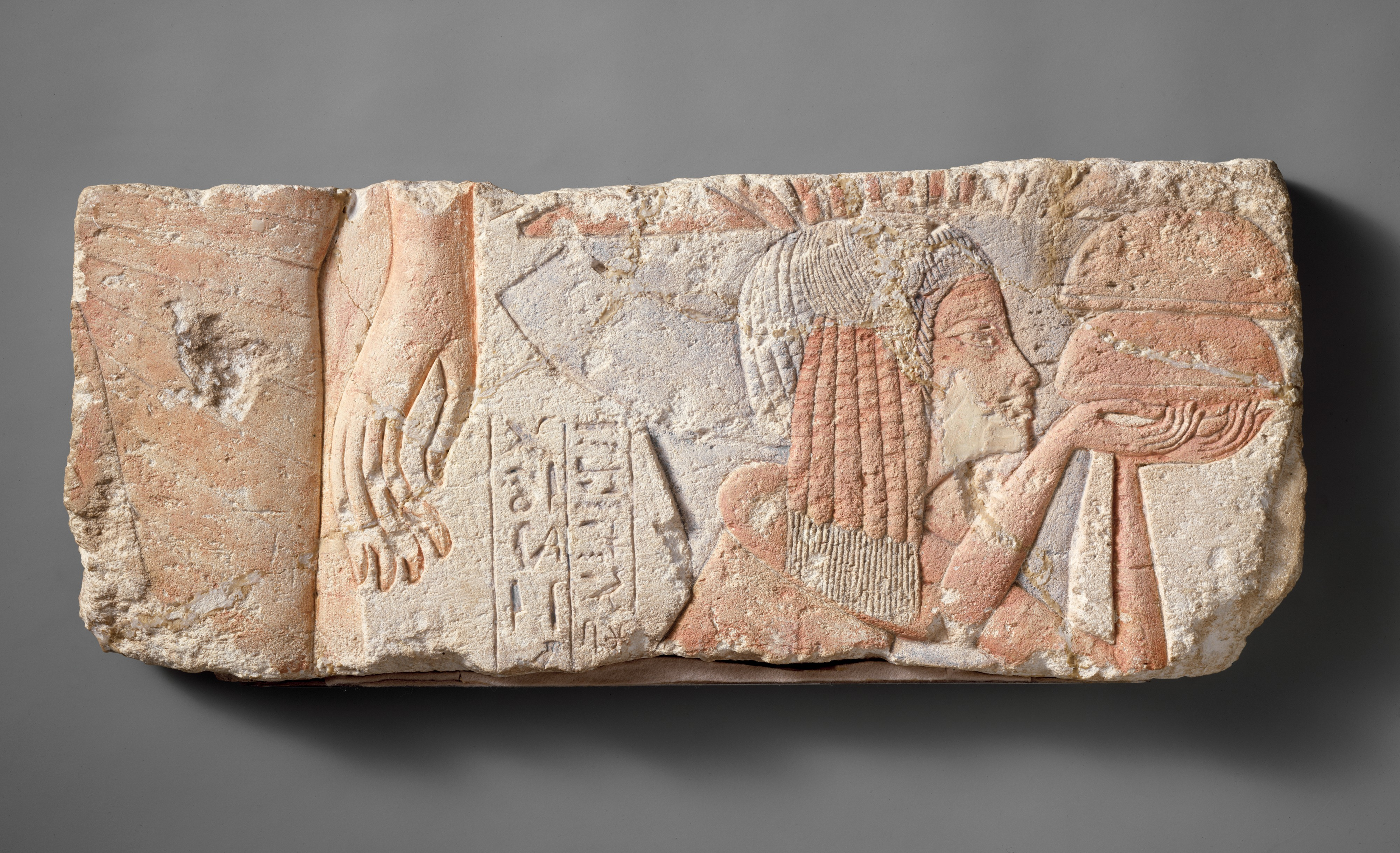 Talatat, nurse Tia